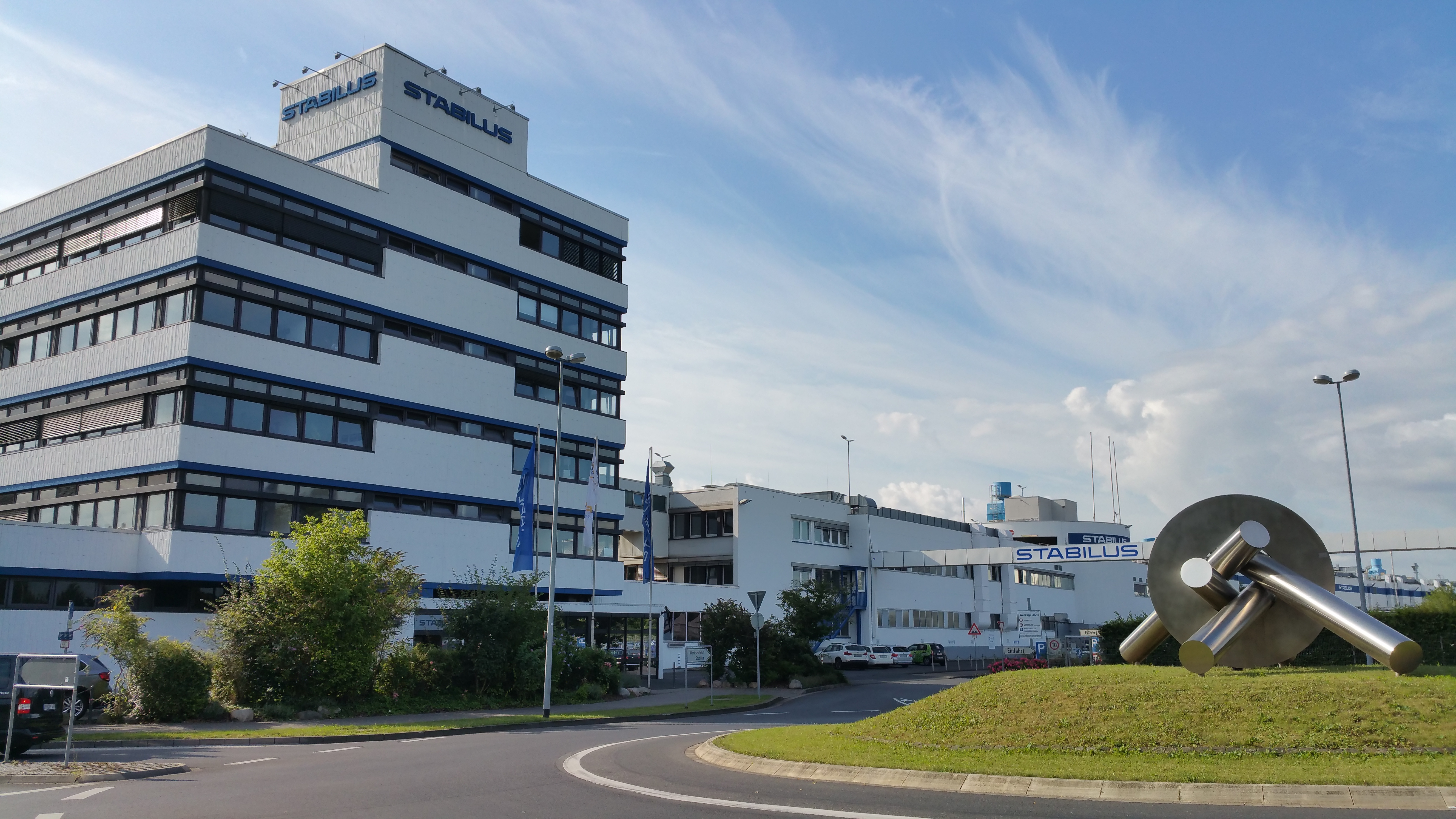 Company building of Stabilus GmbH in Koblenz